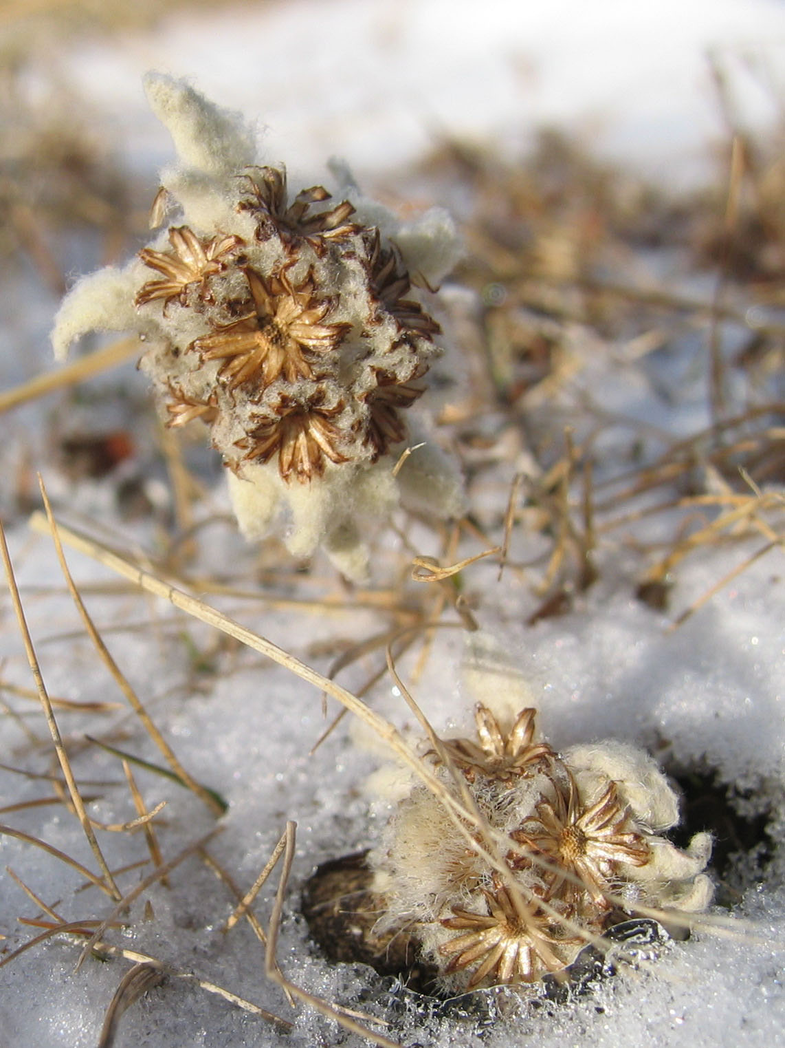 Edelweiss (Leontopodium alpinum) in December